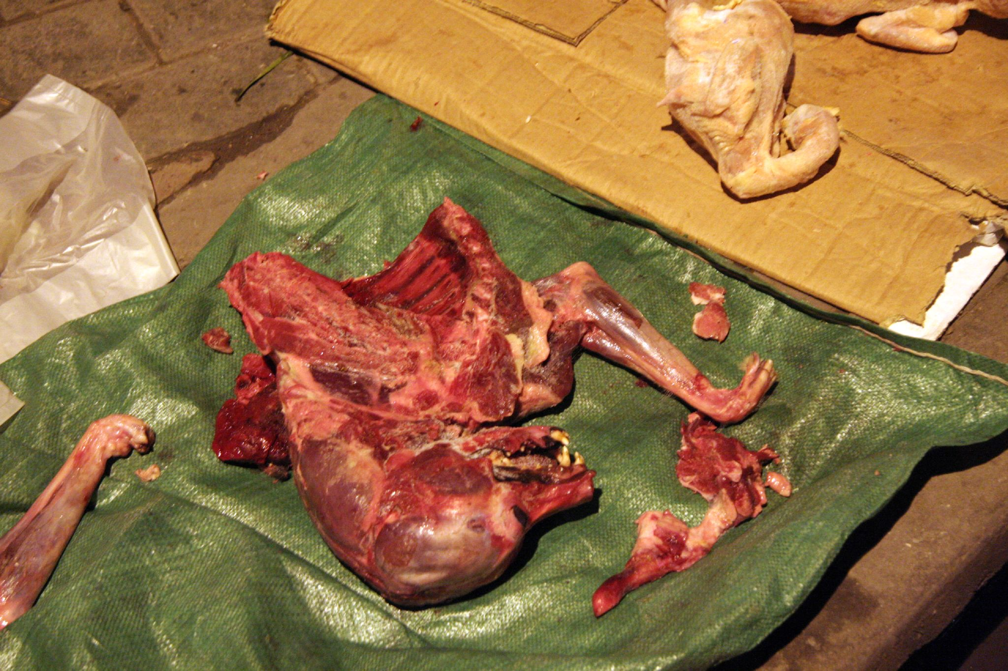 Dog meat sold in Shanghai, China